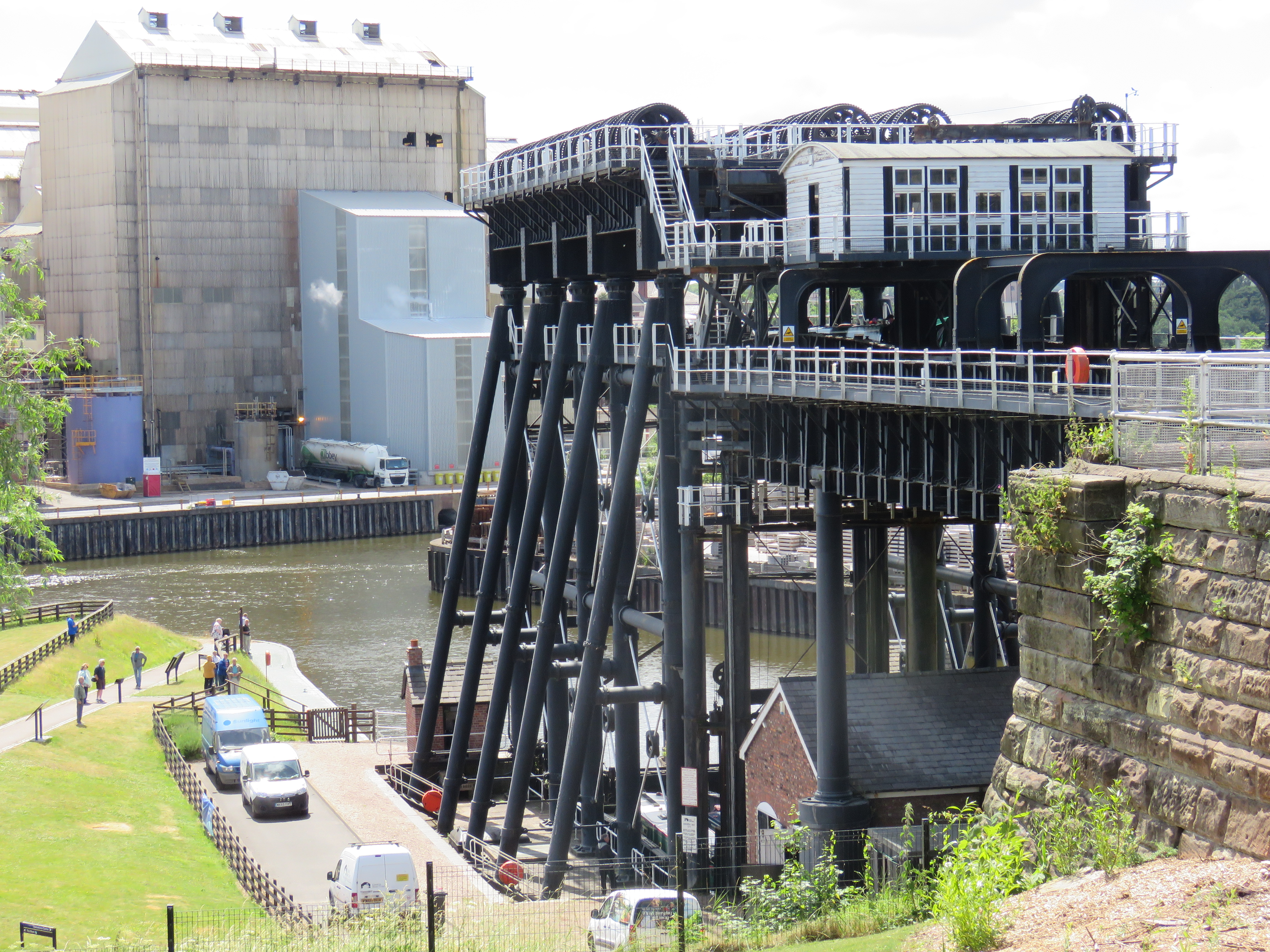 Anderton boat lift, Trent & Mersey Canal, Cheshire